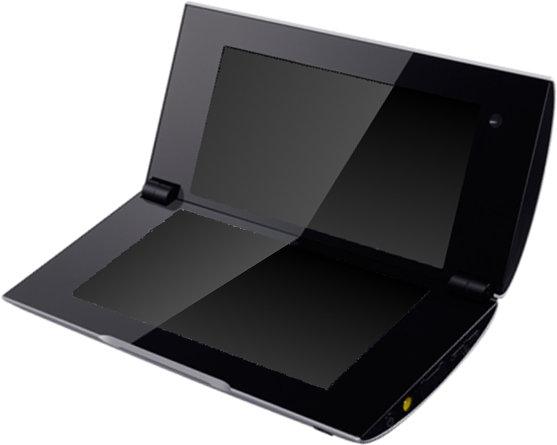 Sony S2 (codename) Ilustration. This file was created in GIMP and it's totally my own work.